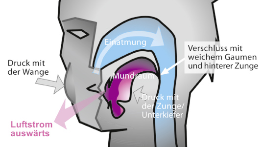 Illustration for the mechanisms involved in circular breathing (German)